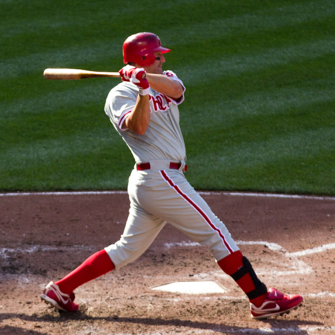 Jim Thome